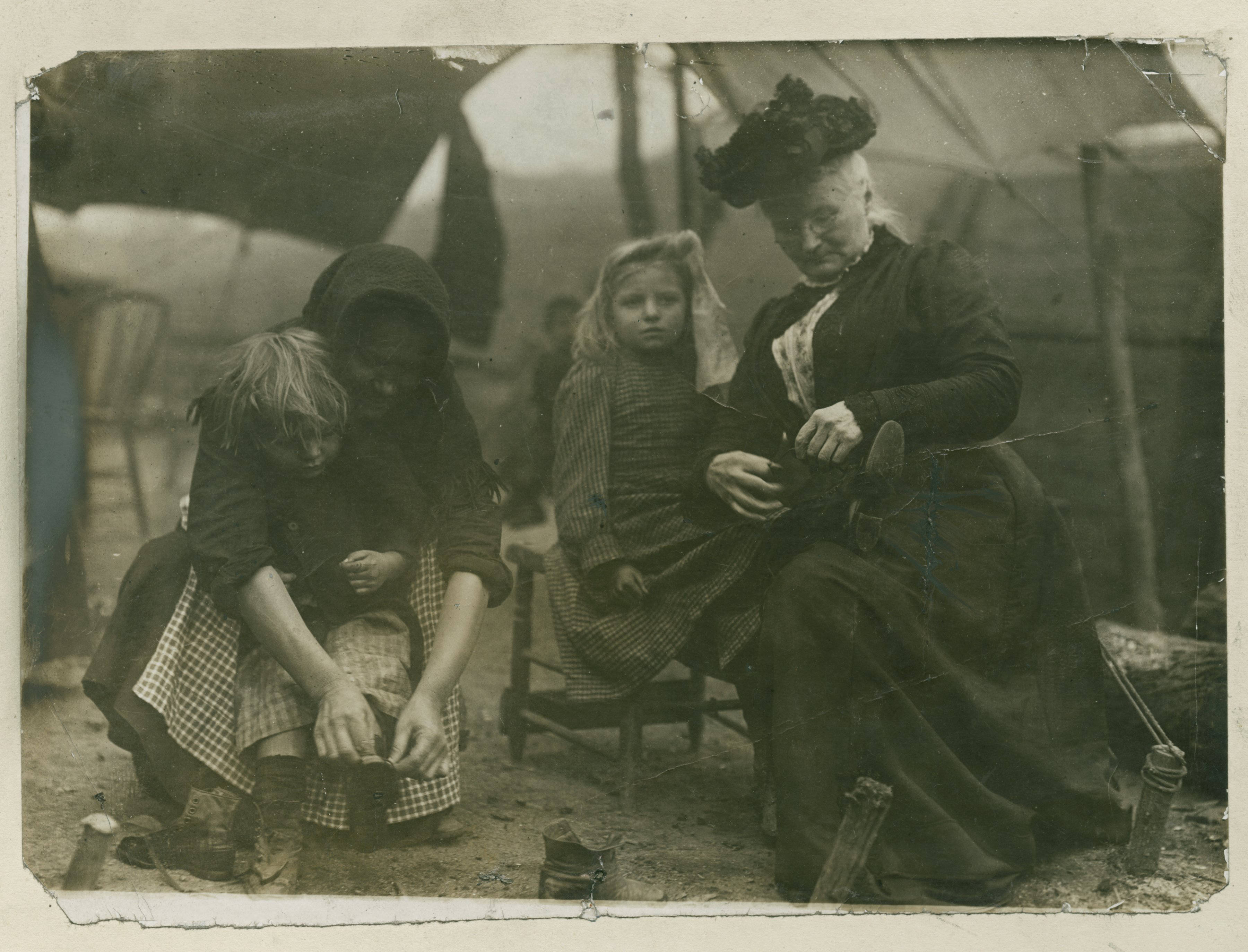 Mother Jones with the Miners ' Children